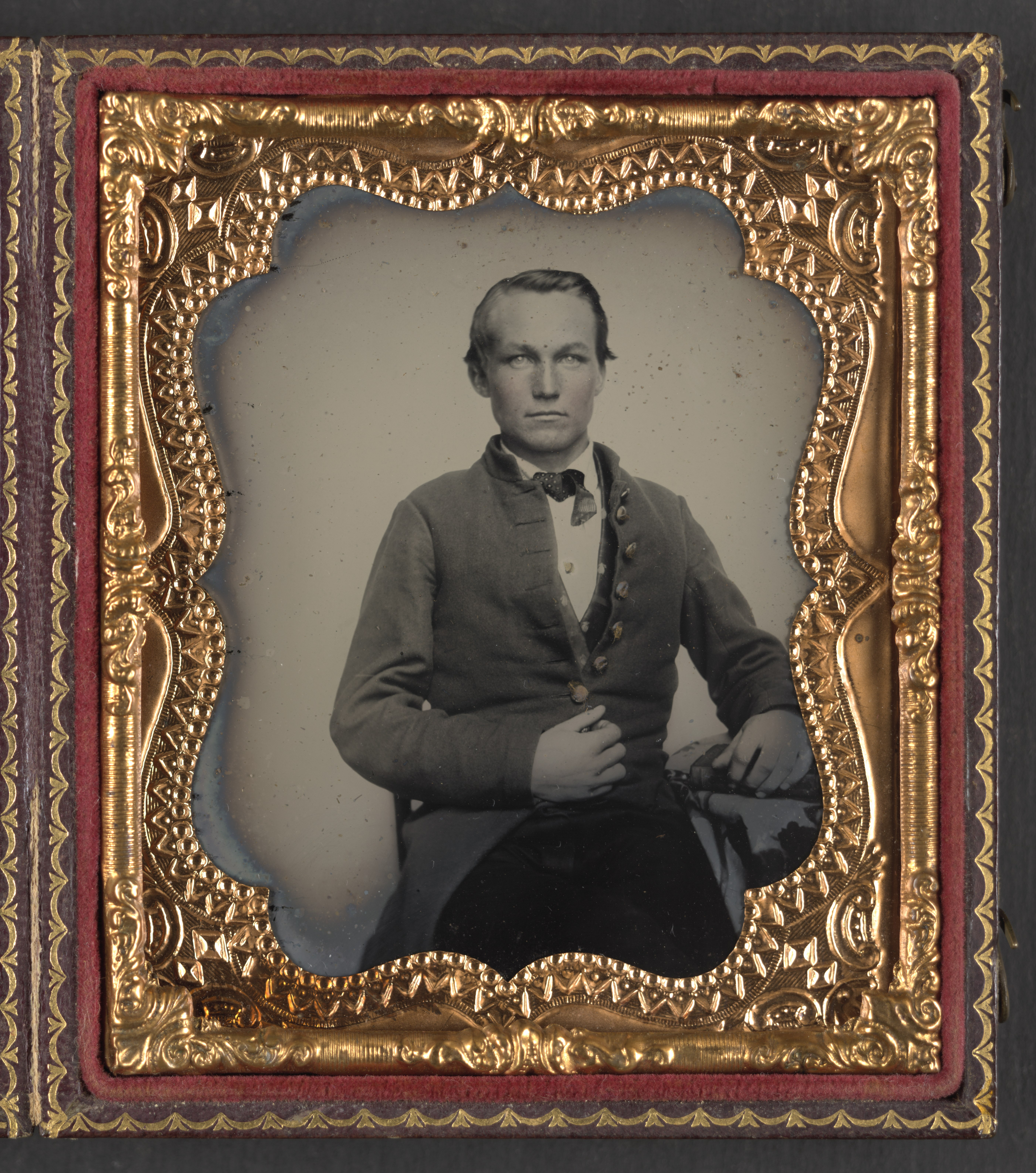 Title: Soldier in Confederate uniform with state of Virginia buttons Abstract/medium: 1 photograph : hand-colored ruby ambrotype ; plate 82 x 67 mm (sixth plate format), case 94 x 82 mm.